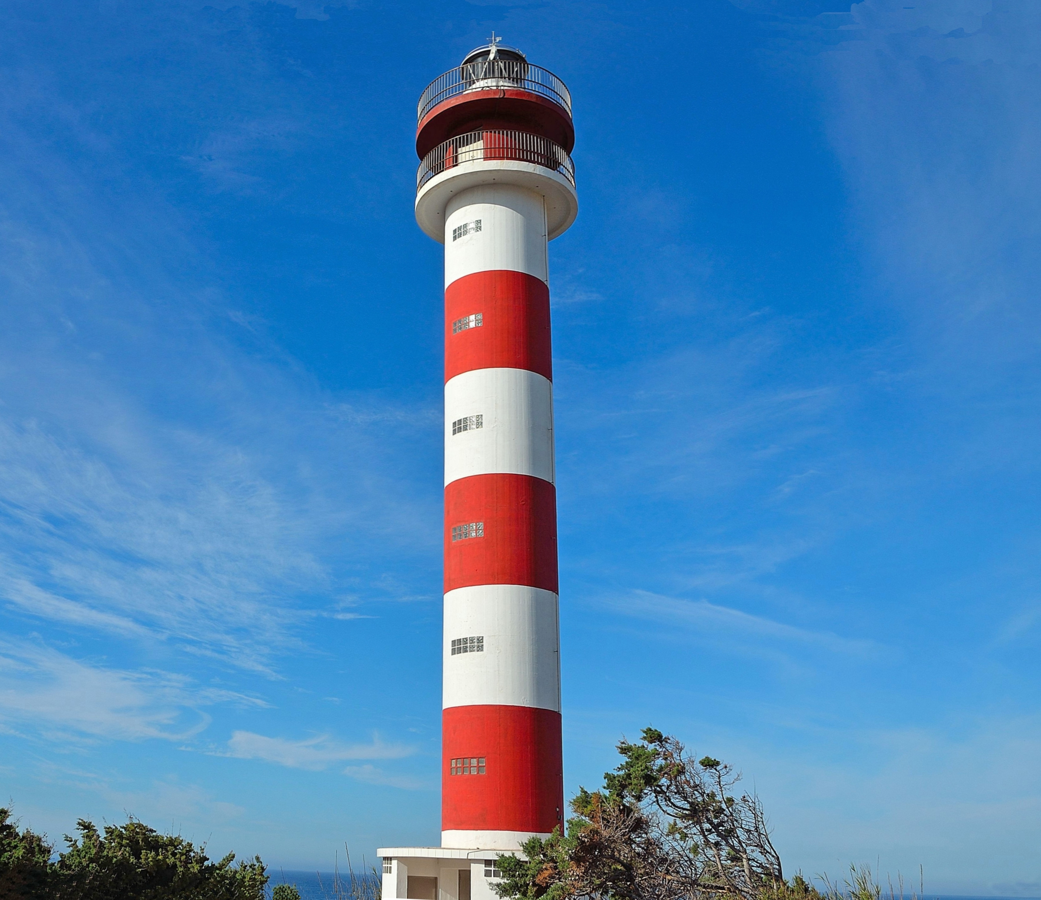 El tercer faro de Adra. This version is cropped, watermark removed, and straightened.